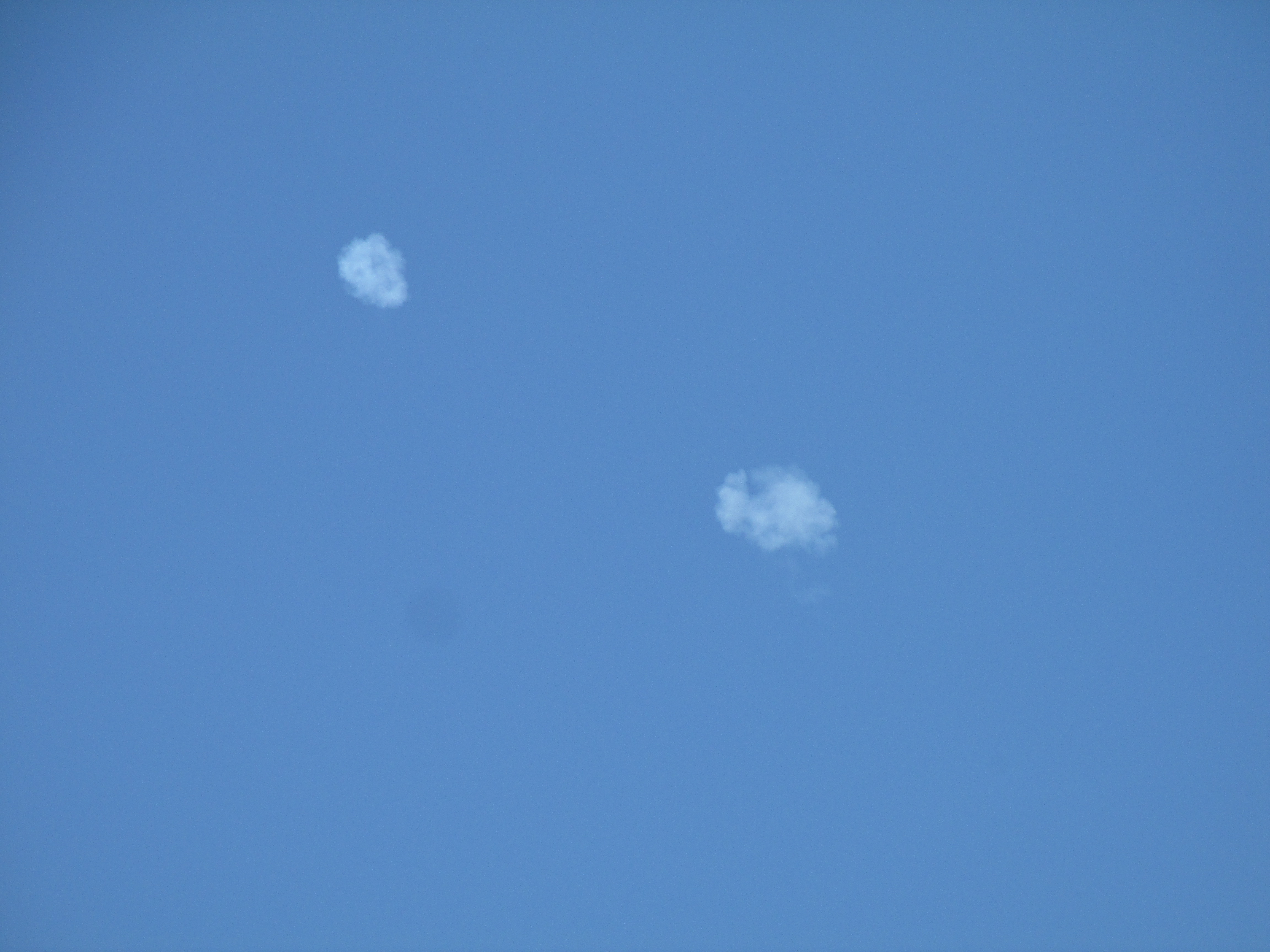 Two interceptions of M-75 missiles by Iron Dome over Dan region during Operation Protective Edge